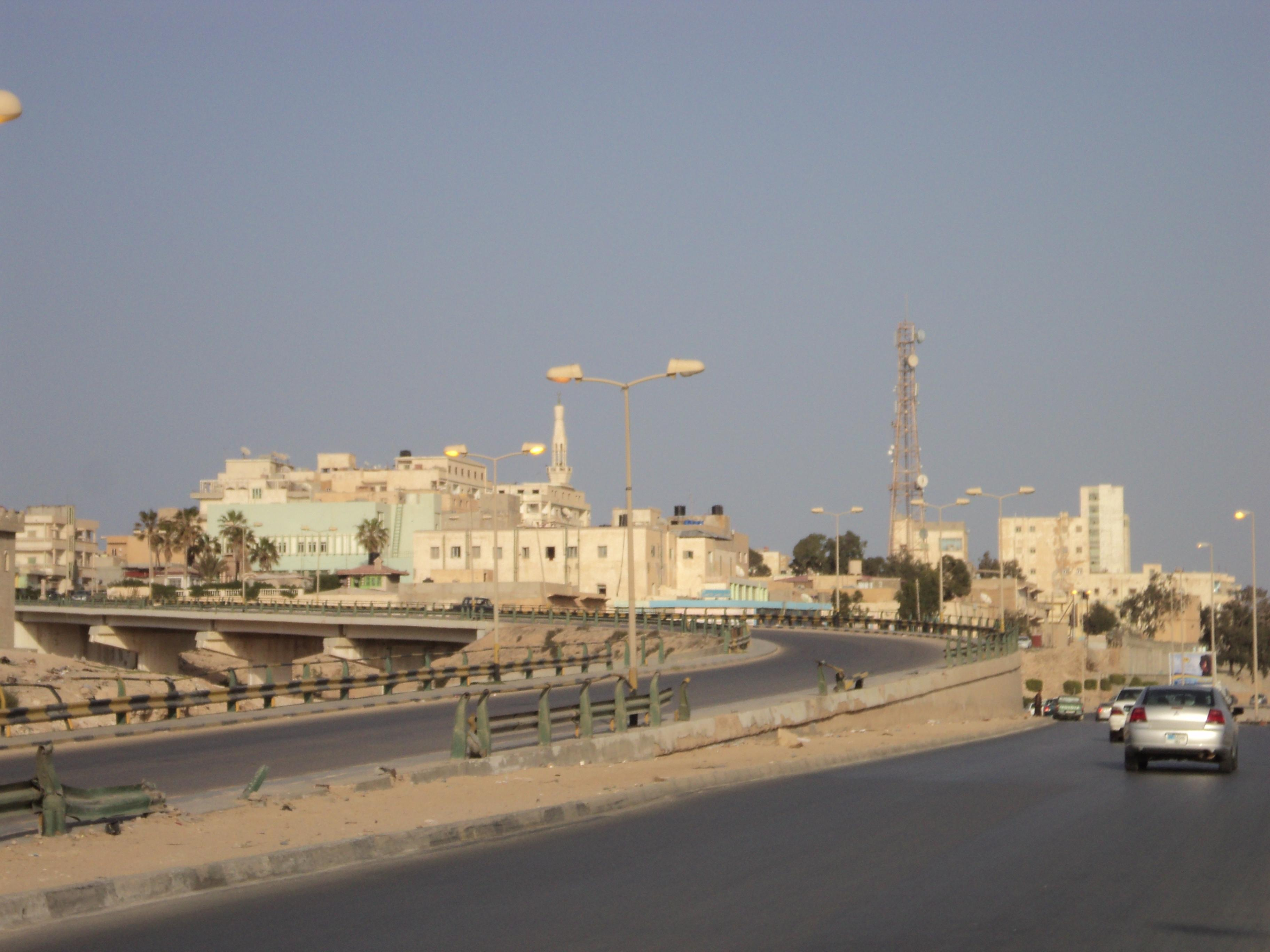 The Libyan city of Tobruk.